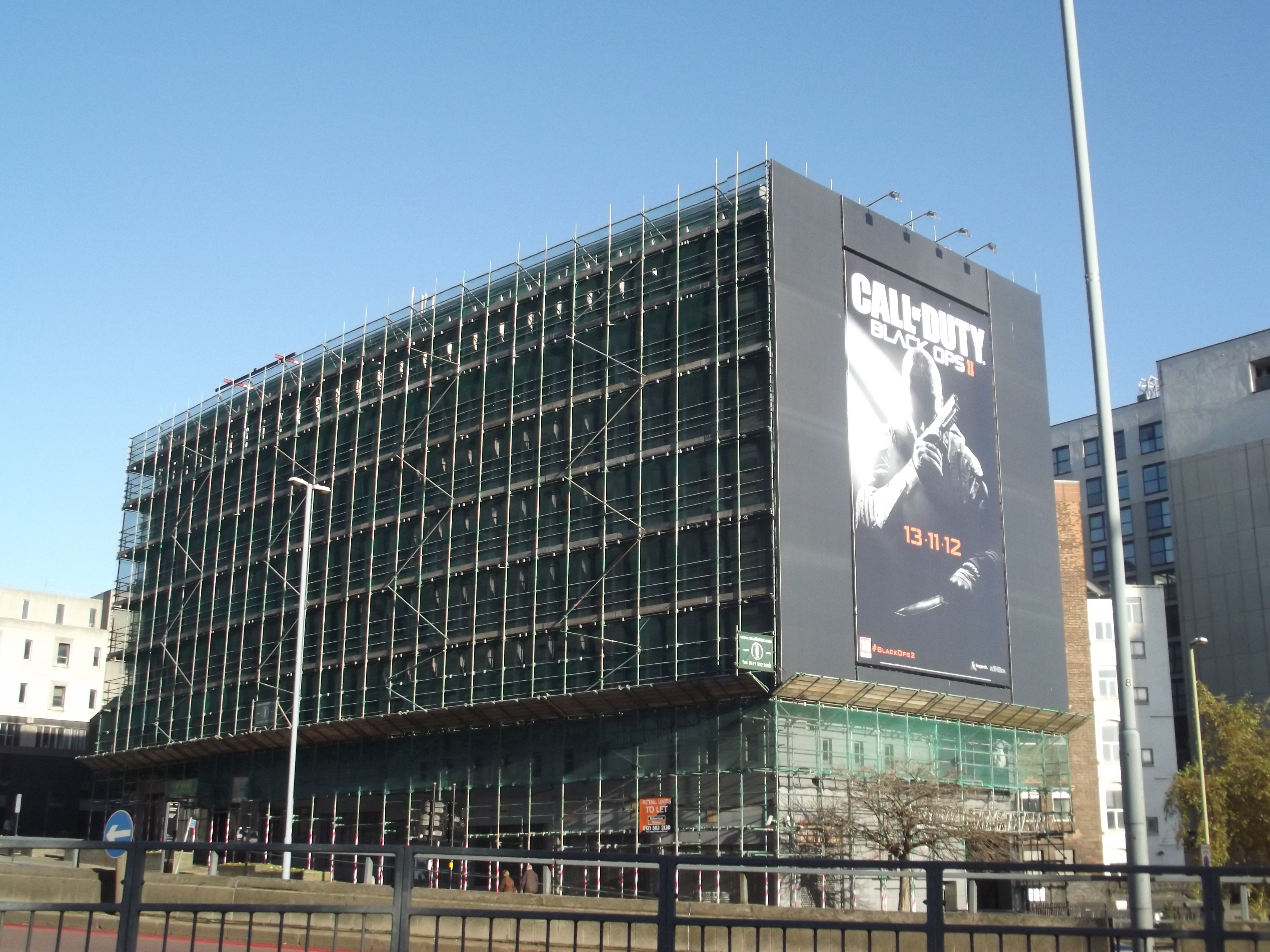 Heading to the Remembrance Sunday Parade from Suffolk Street Queensway. Building under scaffolding with Call of Duty: Black Ops II billboard. It is Beneficial House. Beneficial House is a large office block fronting onto Suffolk Street Queensway and Paradise Street. It was constructed in the early 1960s and refurbished in the early 2000s. Additional refurbishment work commenced in 2010, however the building's owners fell into administration forcing the work to halt and leaving the building shrouded in scaffolding. The Snobs nightclub is located in the basement of the building.